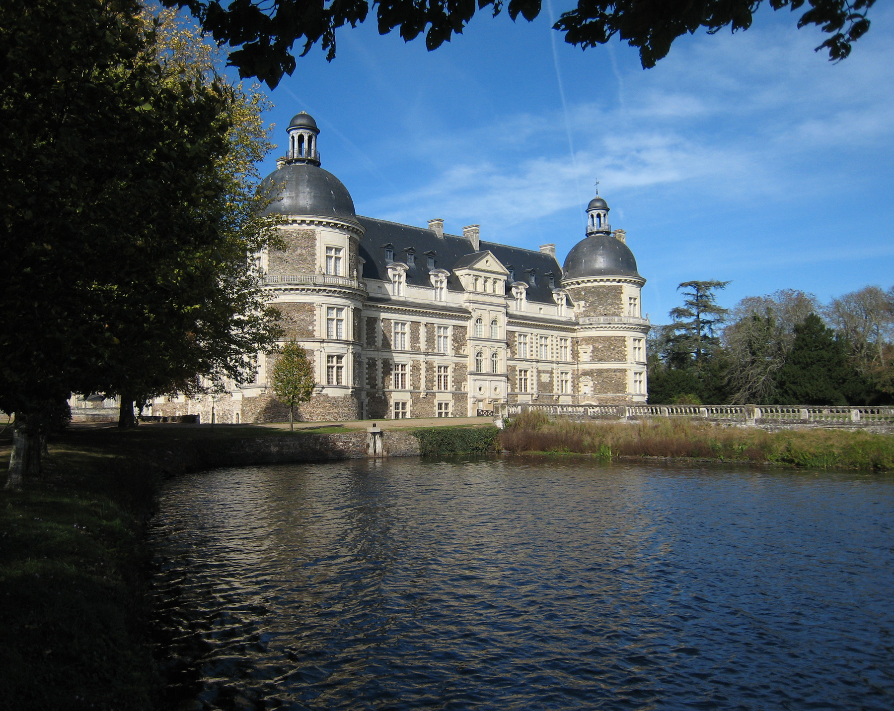 Castle Serrant, located near the village of Saint-Georges-sur-Loire, 15 km west of the town of Angers, in the county of Maine-et-Loire/France